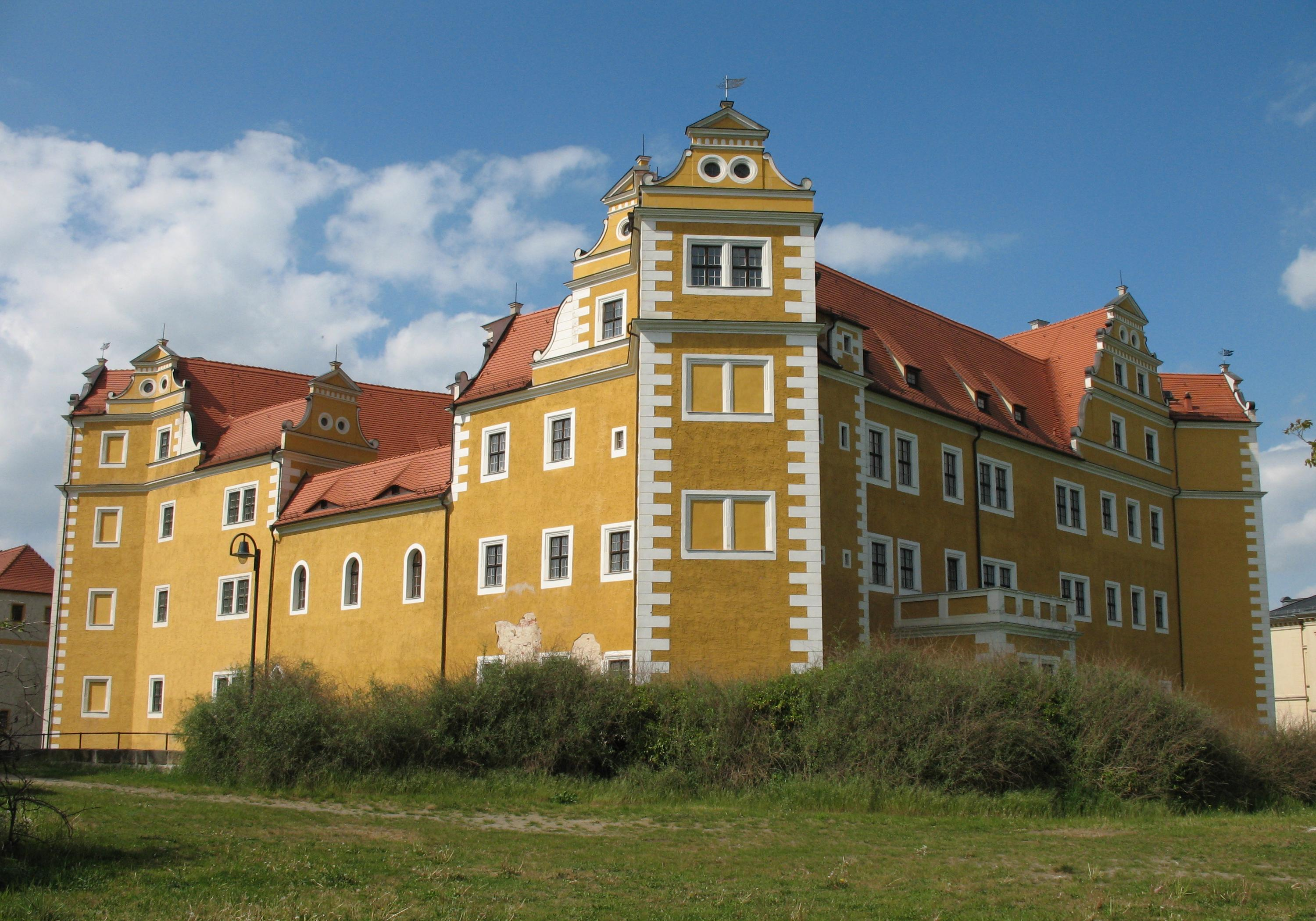 Castle in Annaburg in Saxony-Anhalt, Germany